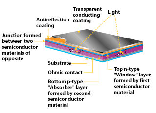 Cross-section of thin film polycrystalline solar cell. As seen the transparent conducting coating contacts the n-type semiconductor to draw current.